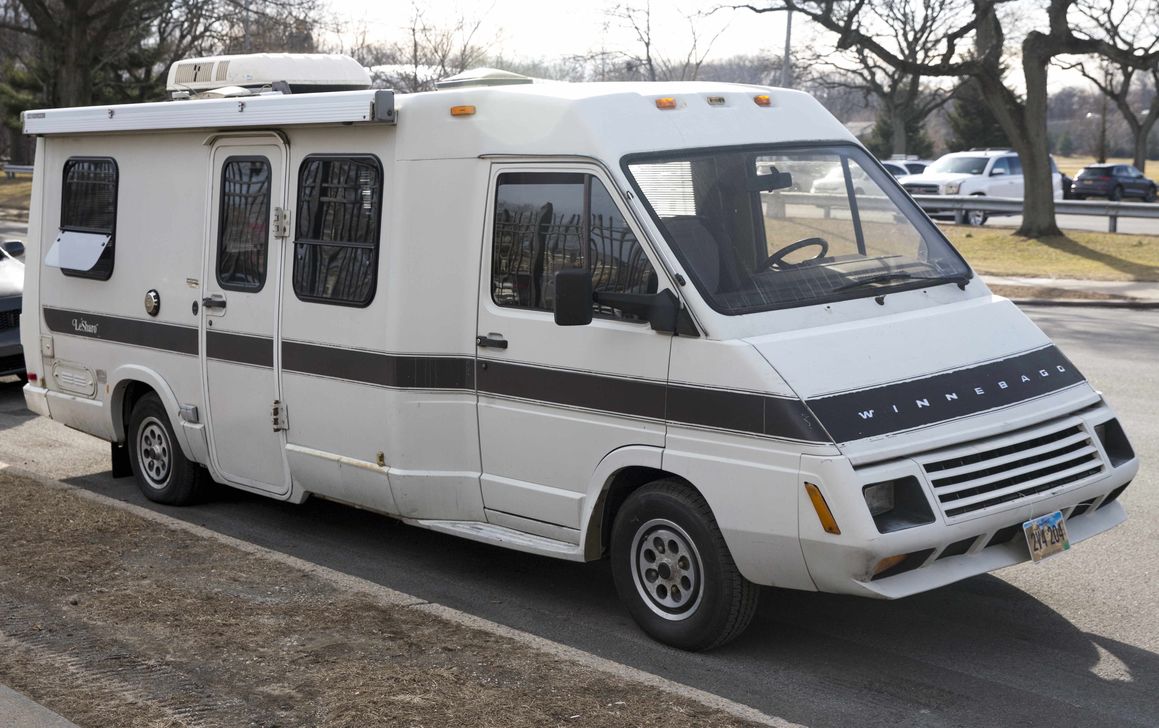 A 1988 Winnebago LeSharo motorhome. 2.2-liter gasoline engine and a Class 2E vehicle: 6,001 - 7,000 lb (2,722 - 3,175 kg).